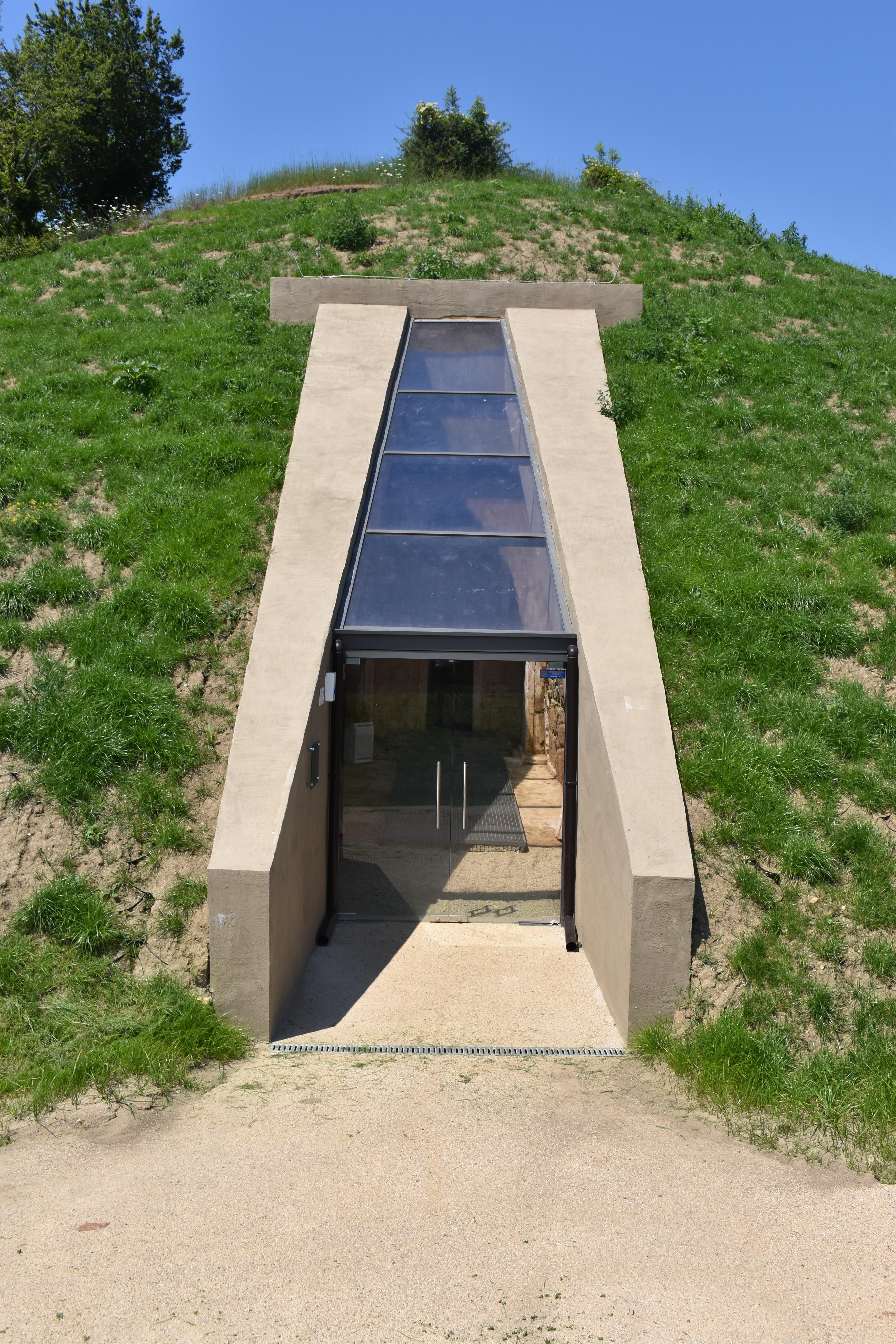 Thracian tomb Helvetia, Bulgaria